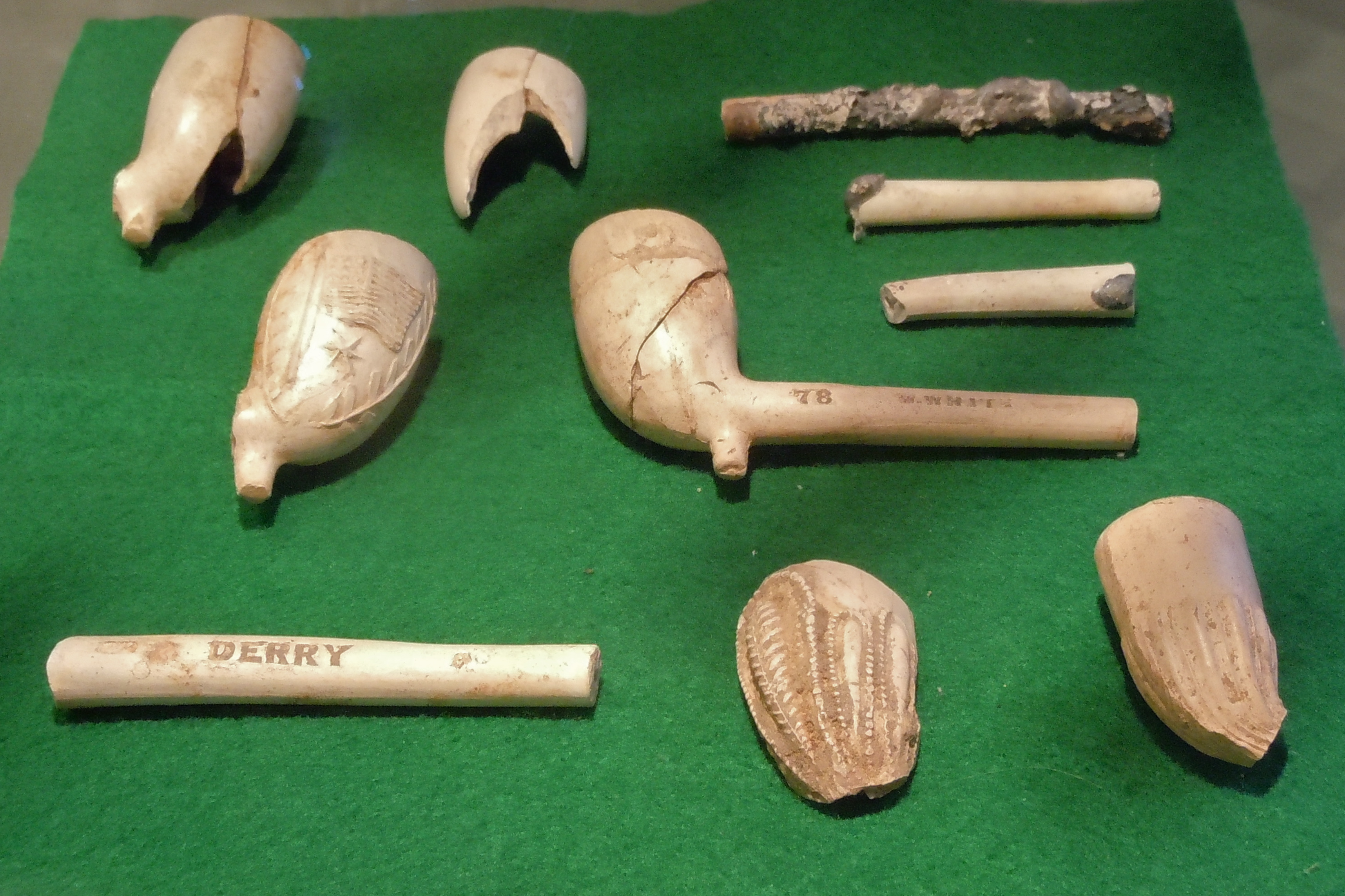 Smoking pipe fragments excavated at Duffy's Cut, Pennsylvania. Some of the pipes clearly made in Ireland. Museum location given.